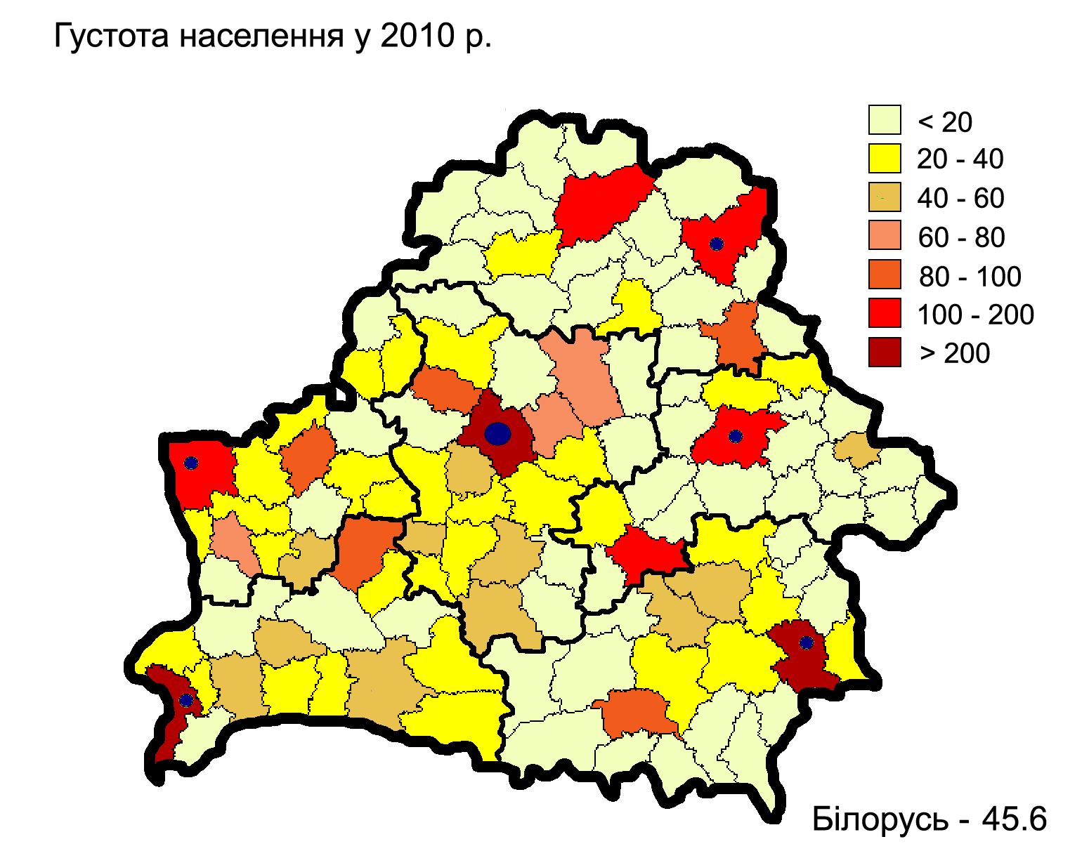 Population density in Belarus, 2010